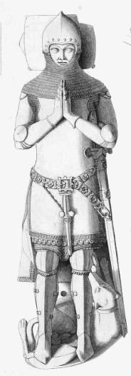 Effigy of Humphrey de Bohun, 4th Earl of Hereford (d.1321/2), Hereford Cathedral